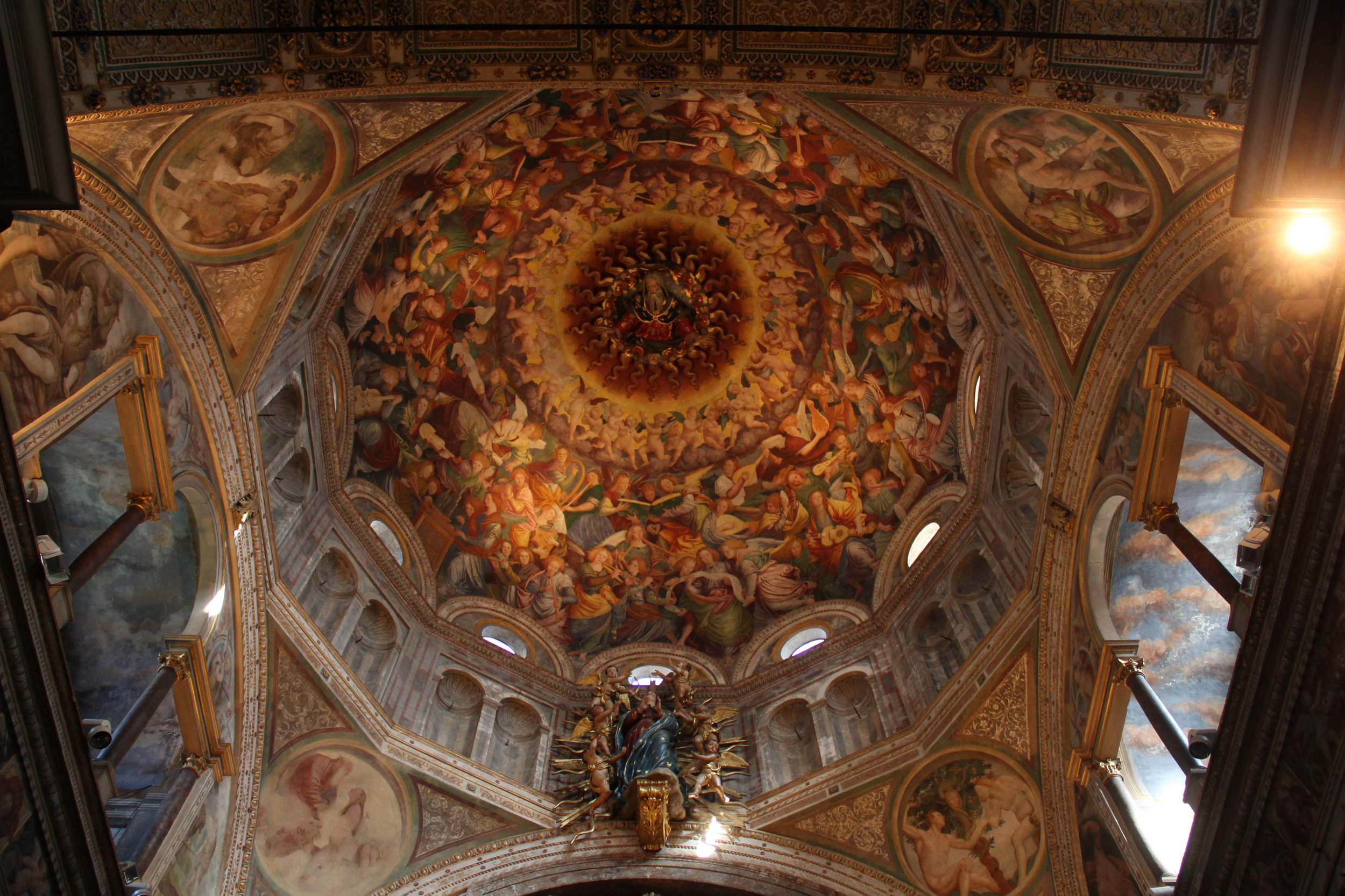 Santuario della Beata Vergine dei Miracoli, Saronno, Lombardy, Italy Santuario della Madonna dei Miracoli Native nameSantuario della Beata Vergine dei MiracoliLocationSaronno, Lombardy, ItalyCoordinates45° 37′ 34.5″ N, 9° 01′ 32.02″ E Established8 May 1498Web page control : Q3471763 VIAF: 131787309 LCCN: nr88009495 WorldCat institution QS:P195,Q3471763